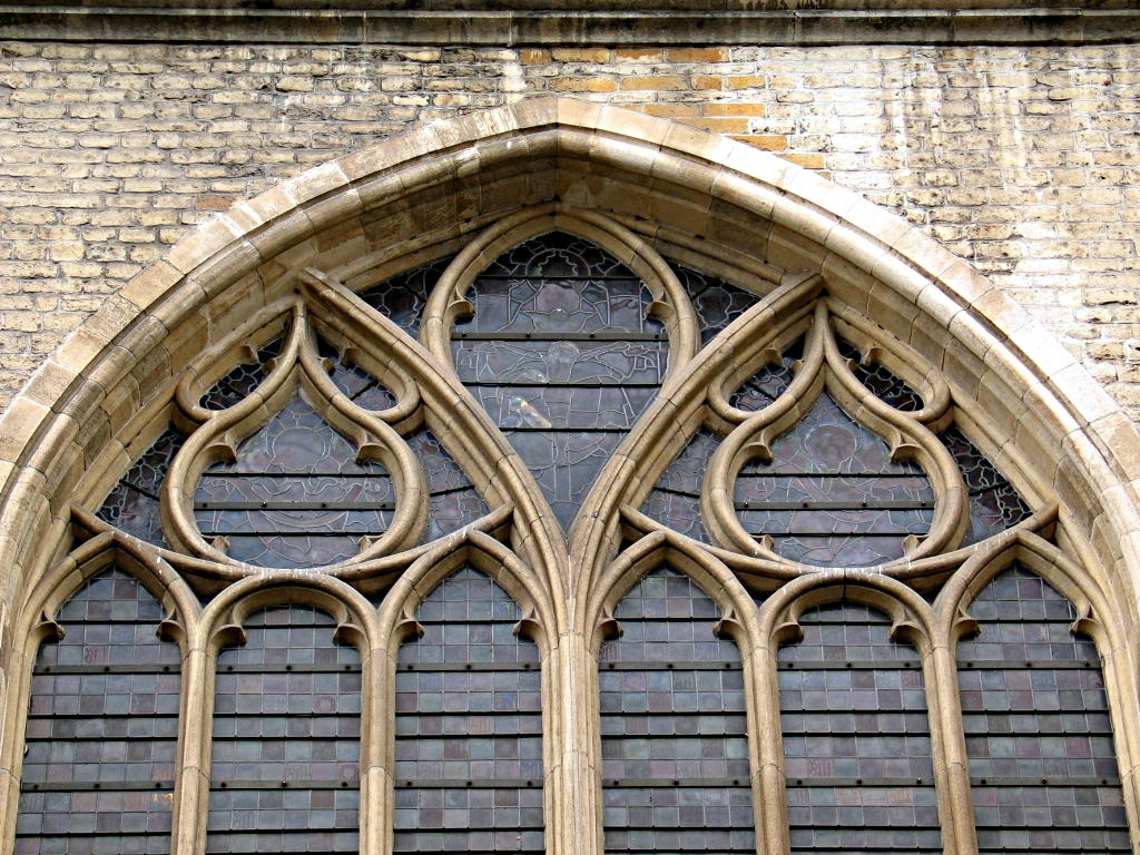 Reuleaux triangles on a window of Sint-Baafskathedraal, Ghent